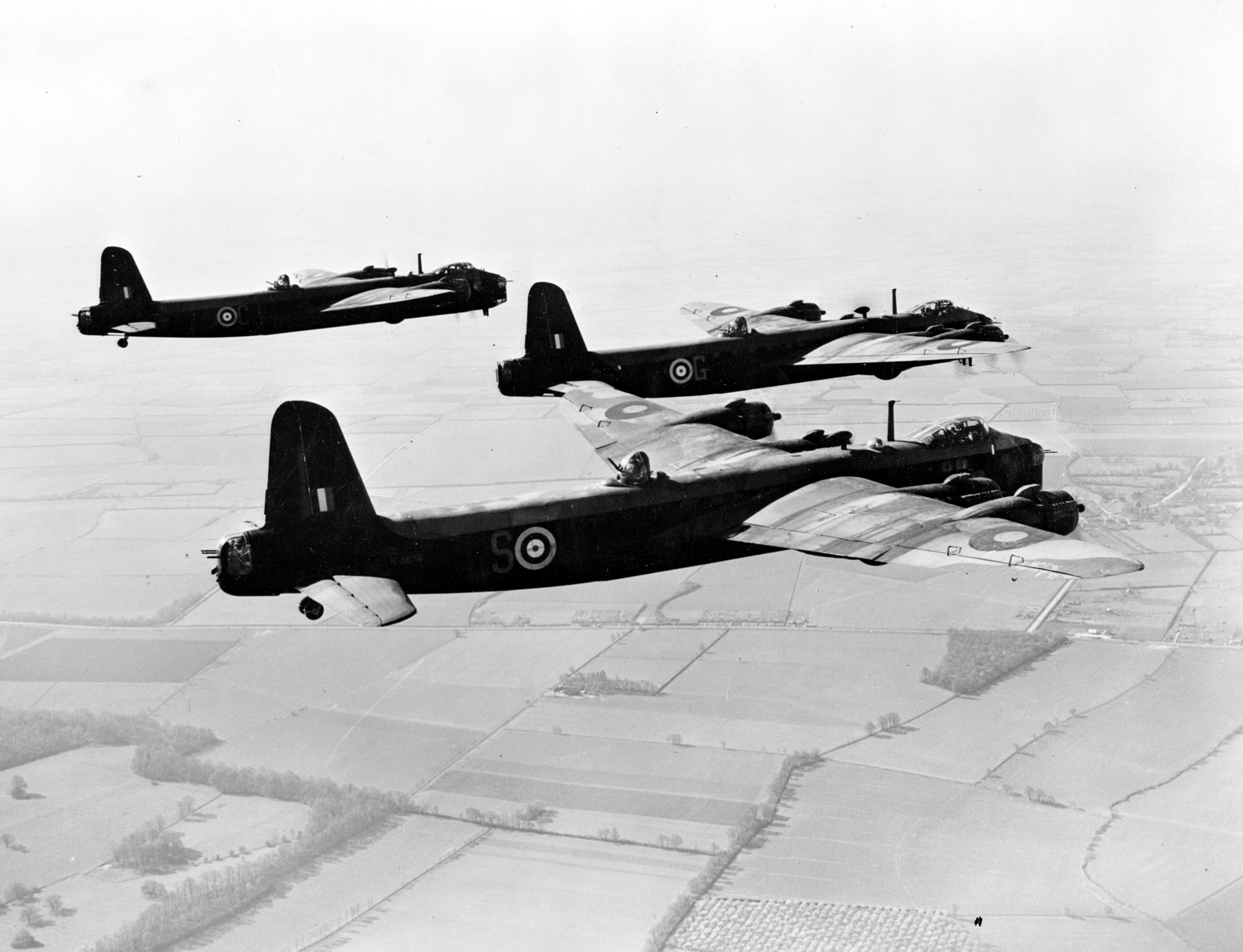 Three Stirling bombers taking off. Great Britain.